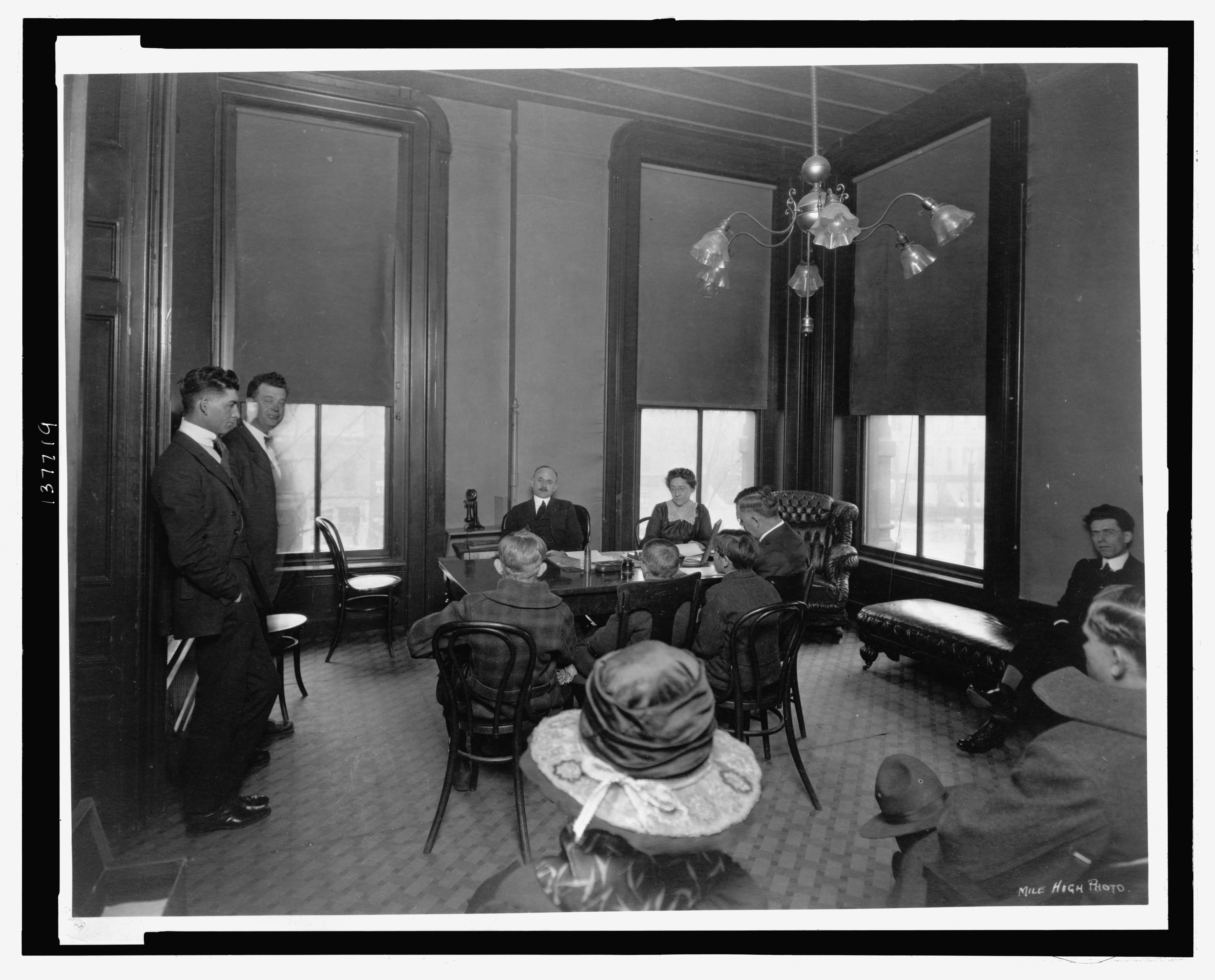 Title: Judge Lindsey in chambers, Juvenile Court, Denver, Colo. / Mile High Photo. Abstract/medium: 1 photographic print.